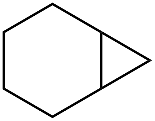 chemical structure of norcarane